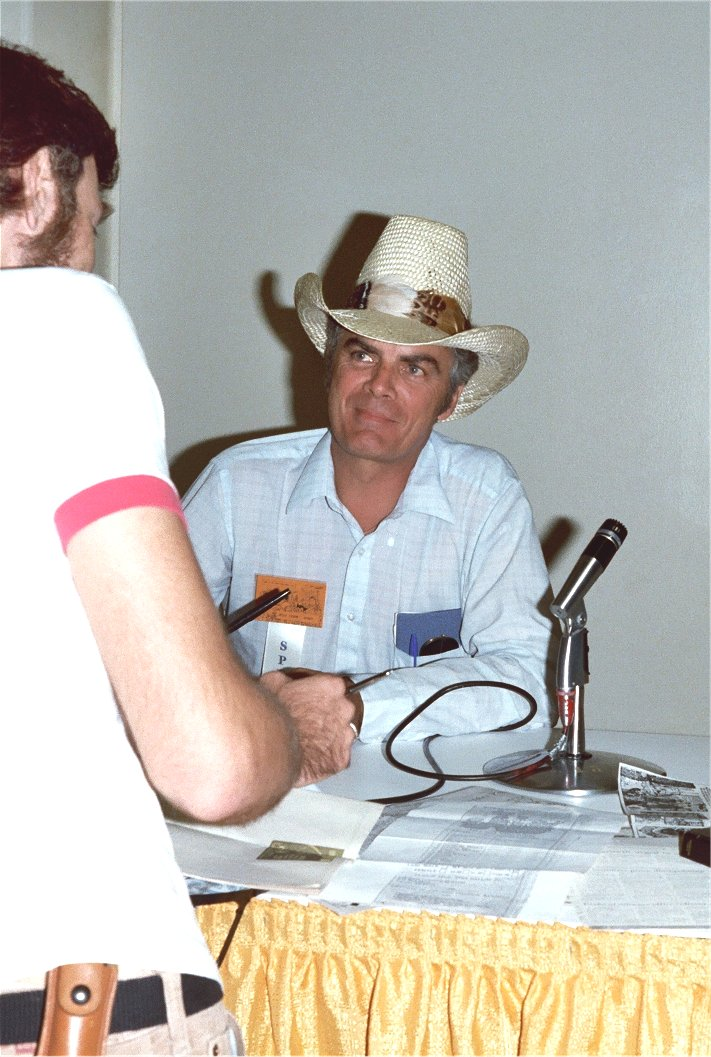 Stan Lynde, creator of Rick O'Shay. Acording to the pictures in the same set on "San Diego Comic-Con" 1982. (today Comic-Con International)